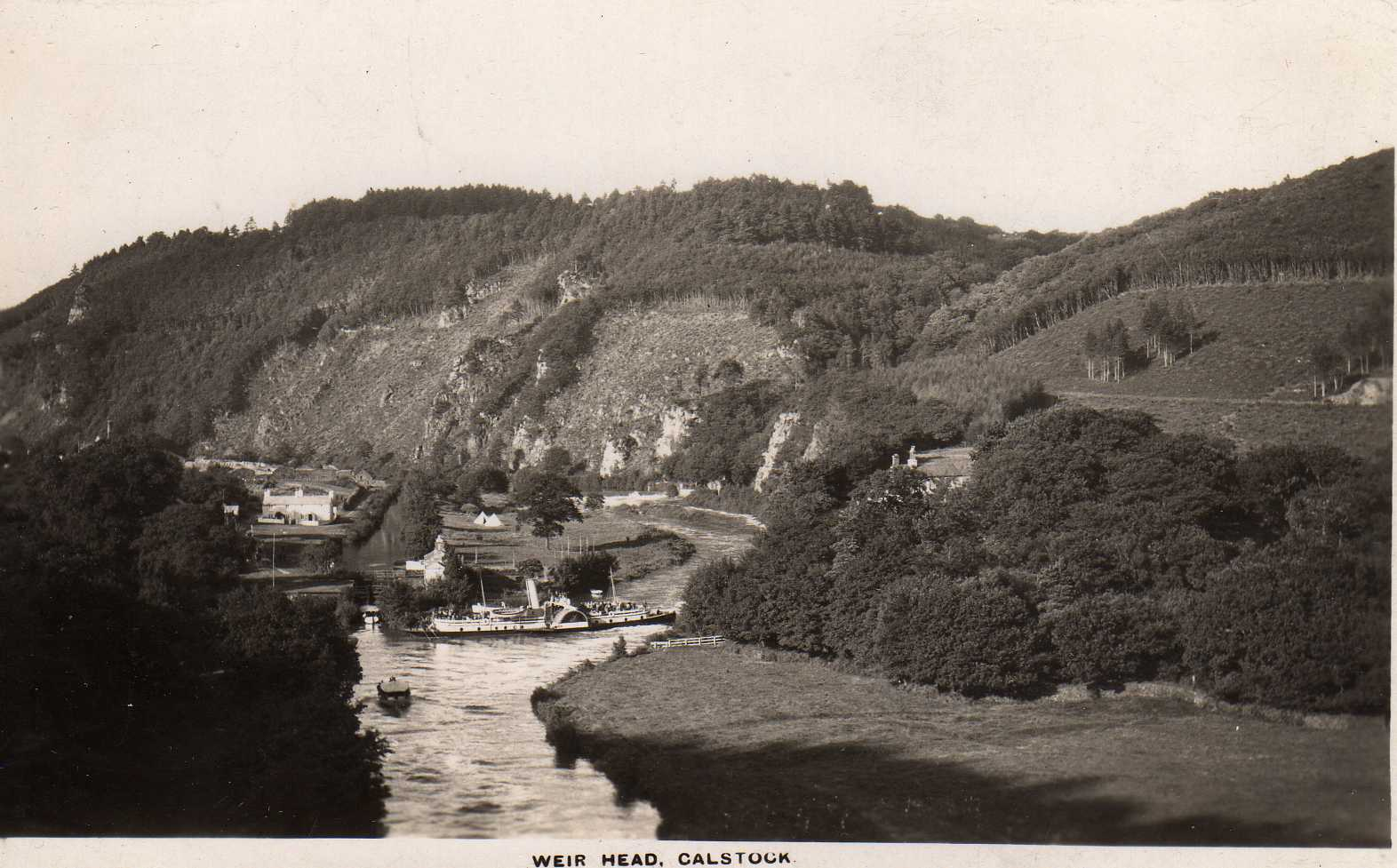 A tourist postcard of the paddle steamer Alexandra turning at Gunnislake on the River Tamar. The two motor launches with awnings heading for the lock are the Tamar Queen and Princess of the Tamar Transport Company.